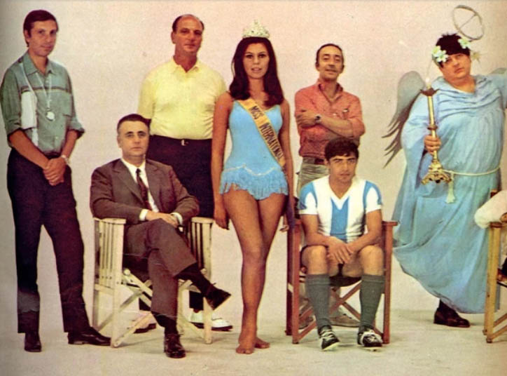 Left cover of Argentine magazine Gente, featuring the "Personalities of the year". Fltr: David Stivel, Roberto De Vicenzo, Mirta Massa, Alberto Olmedo, Juan C. Cárdenas, Eduardo Bergara Leumann.